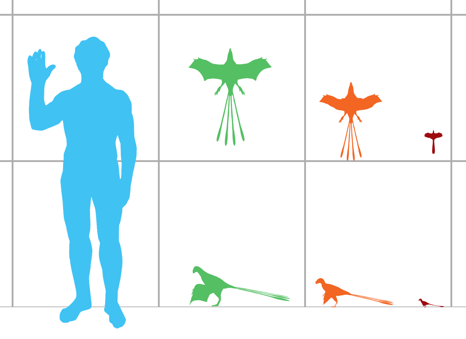 Size comparison of the scansoriopterygids Yi qi (green), Epidexipteryx hui (orange), and Scansoriopteryx heilmanni (red), scaled based on the holotype specimens of each.